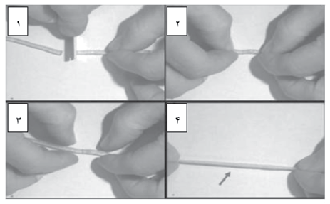 شکل 5 (خصوصیات اصلاح خود به خودی یک پلیمر ابر مولکولی توسط لیبلر و همکارانش